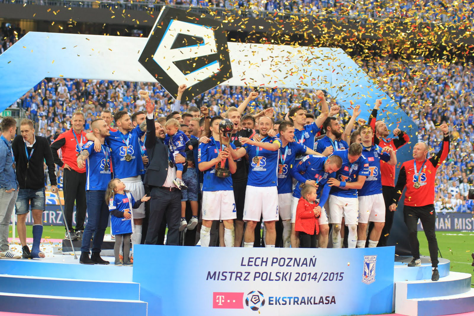 Football team Lech Poznań wins the League, Inea Stadium, Poznań